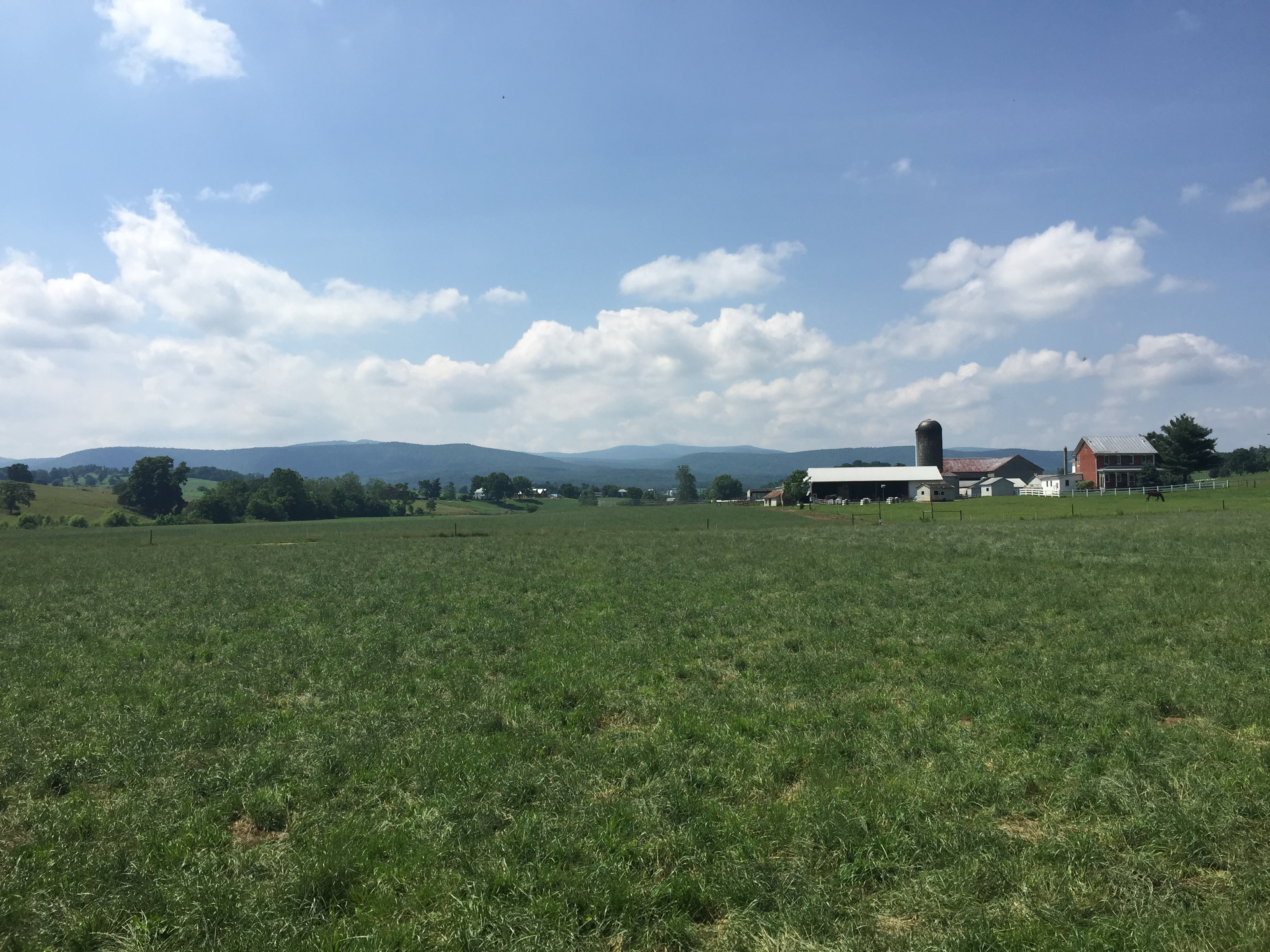 View northwest across a farm from Virginia State Route 257 (Briery Branch Road) at Virginia State Secondary Route 613 (Clover Hill Road) and Virginia State Secondary Route 742 (Waggys Creek Road) in Ottobine, Rockingham County, Virginia